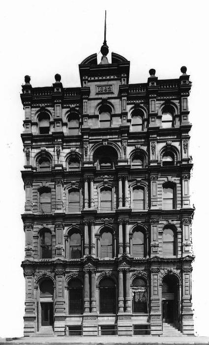 Photograph, Banque Provinciale, Montreal QC, about 1910, Wm. Notman & Son, Silver salts, paint (opaquing) - Gelatin dry plate process - 25 x 20 cm